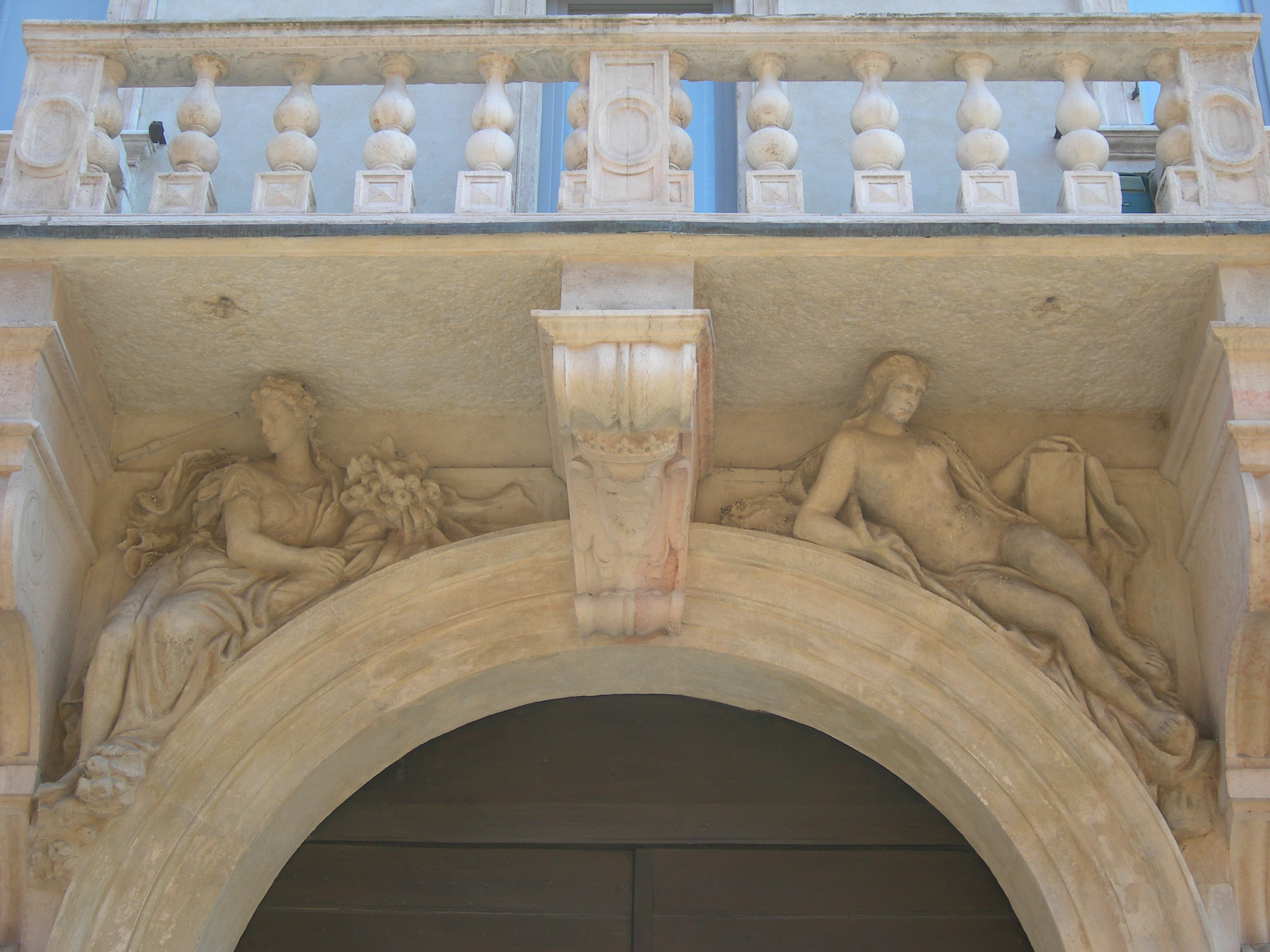 Characteristic of the balcony of Bevilacqua Costabili Palace